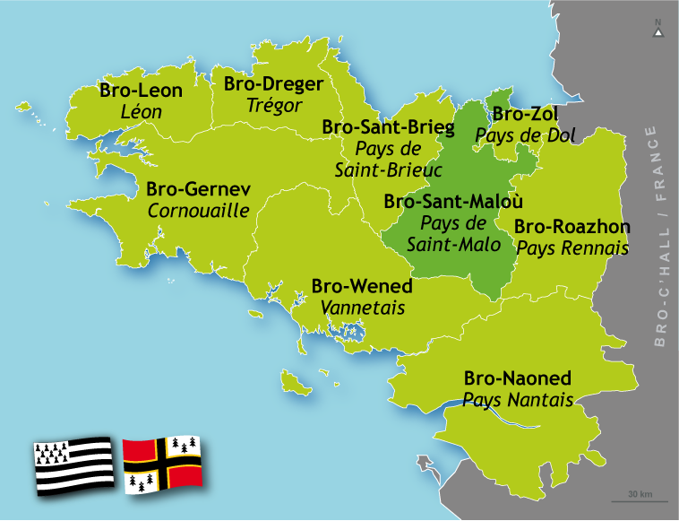 Position's map of Saint-Malo Country (Brittany)